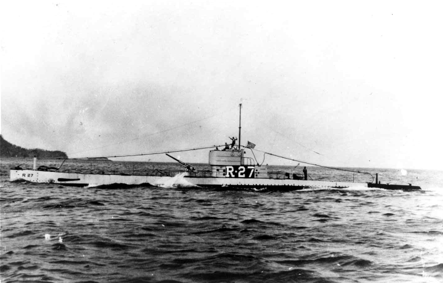 United States Navy submarine , possibly off Hawaii.